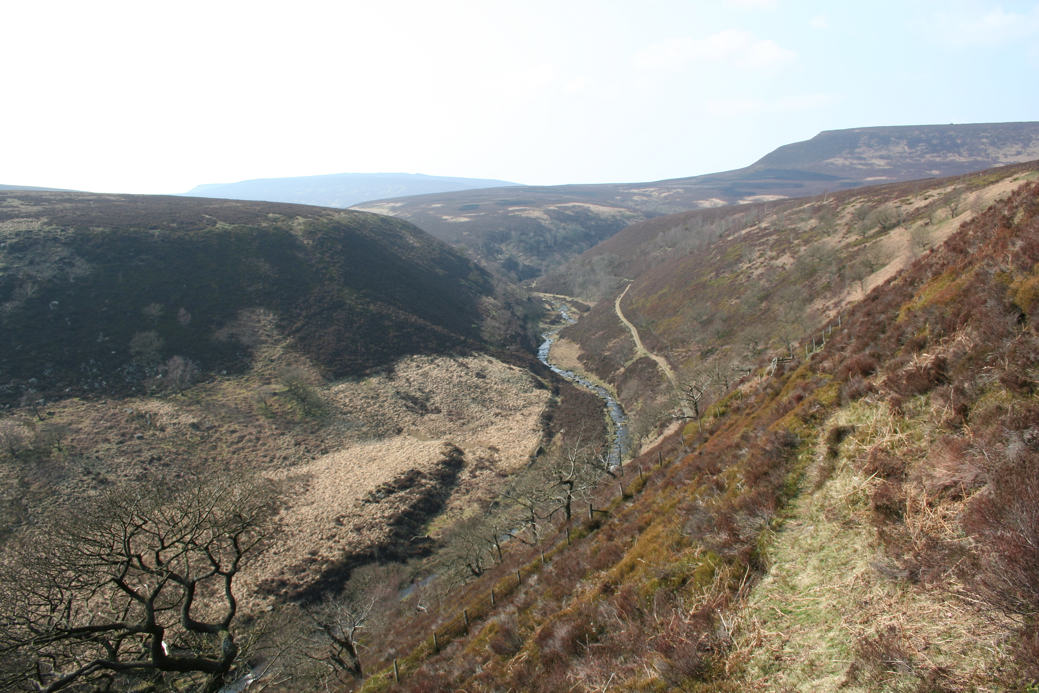 Looking west up the upper River Derwent from Oaken Bank. To the right is Horse Stone Naze and in the far distance the eastern end of the Bleaklow plateau in the vicinity of the Grinah and Barrow Stones. For more information see the Wikipedia articles River Derwent (Derbyshire) and Bleaklow.